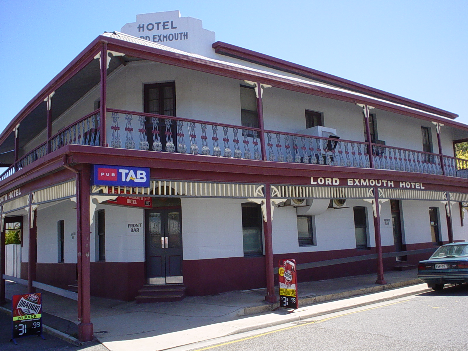 Hotel Lord Exmouth, a historic building in Exeter, South Australia.